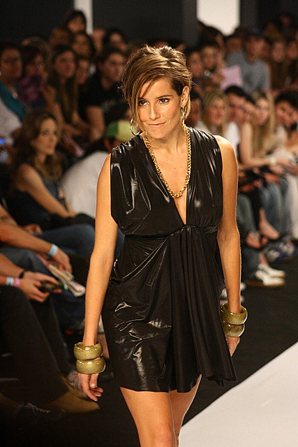 Deborah Secco in Crystal Fashion 2007.